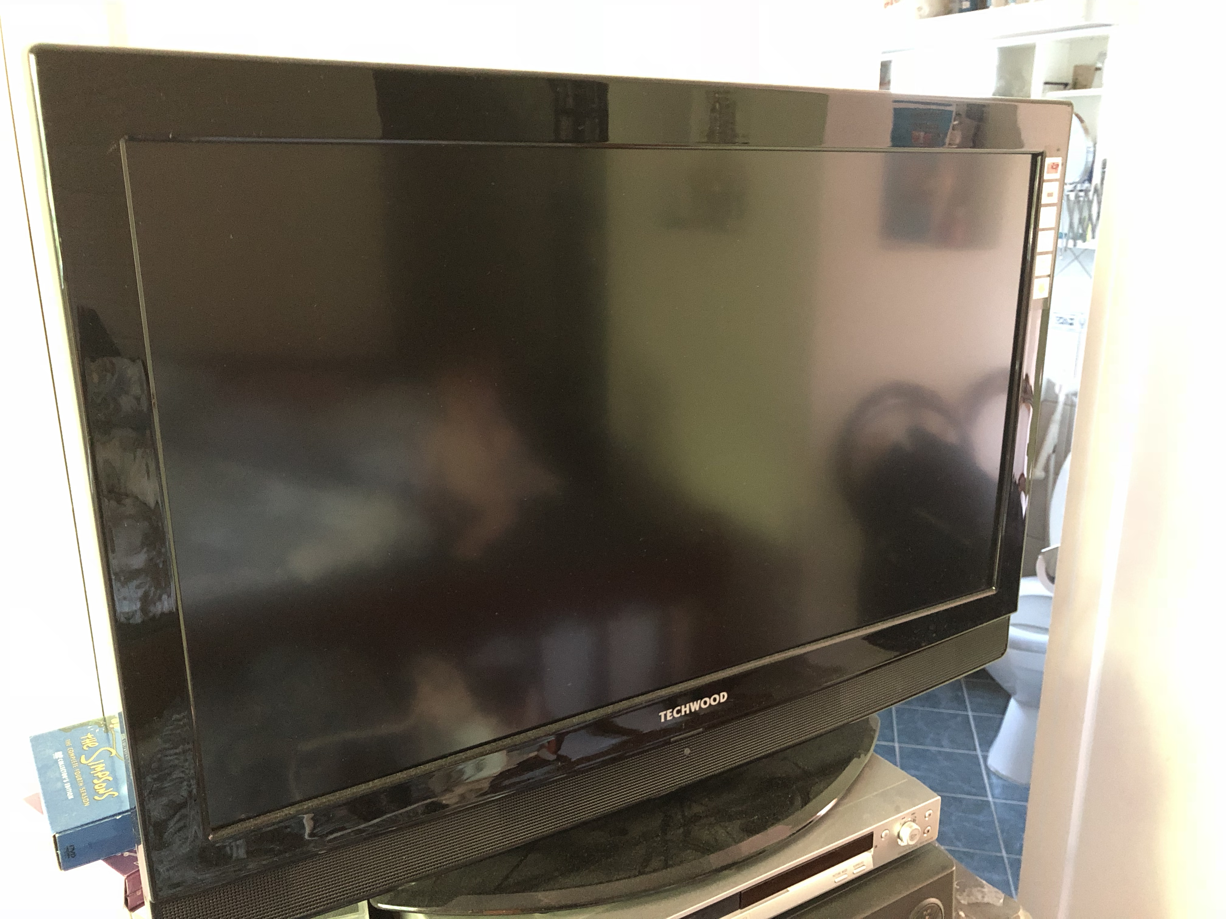 Techwood flat screen televison from 2010